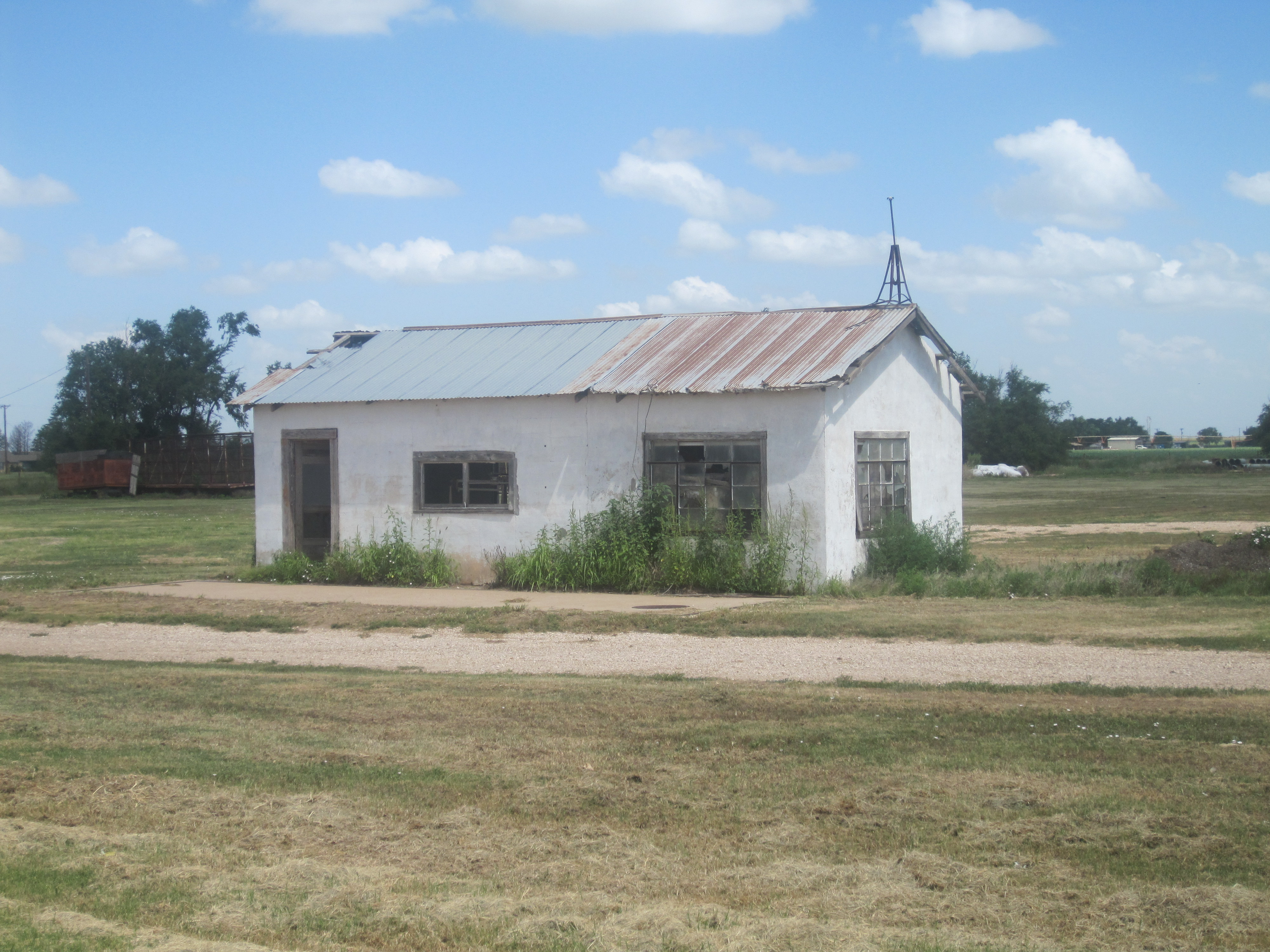 I took photo with Canon camera in Springlake, TX.